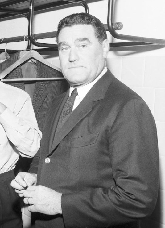 Milan (Italy), San Siro, October 22, 1967. Inter Milan — A.C. Milan 1-1, Italy Championship 1967–68 Serie A. A.C. Milan's coach Nereo Rocco in the dressing room.